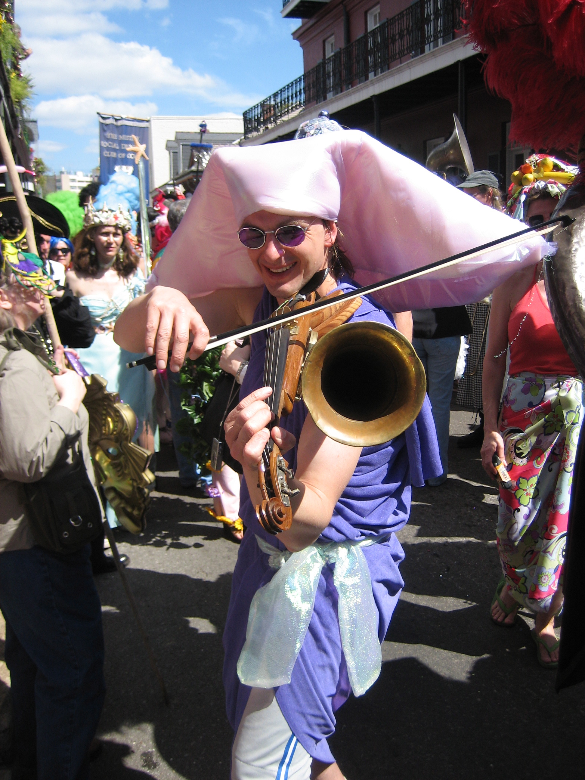 Society of St. Anne parade, New Orleans Mardi Gras Day 2006. Costumed musician David Rebeck of the New Orleans Klezmer All-Stars playing a Stroh violin